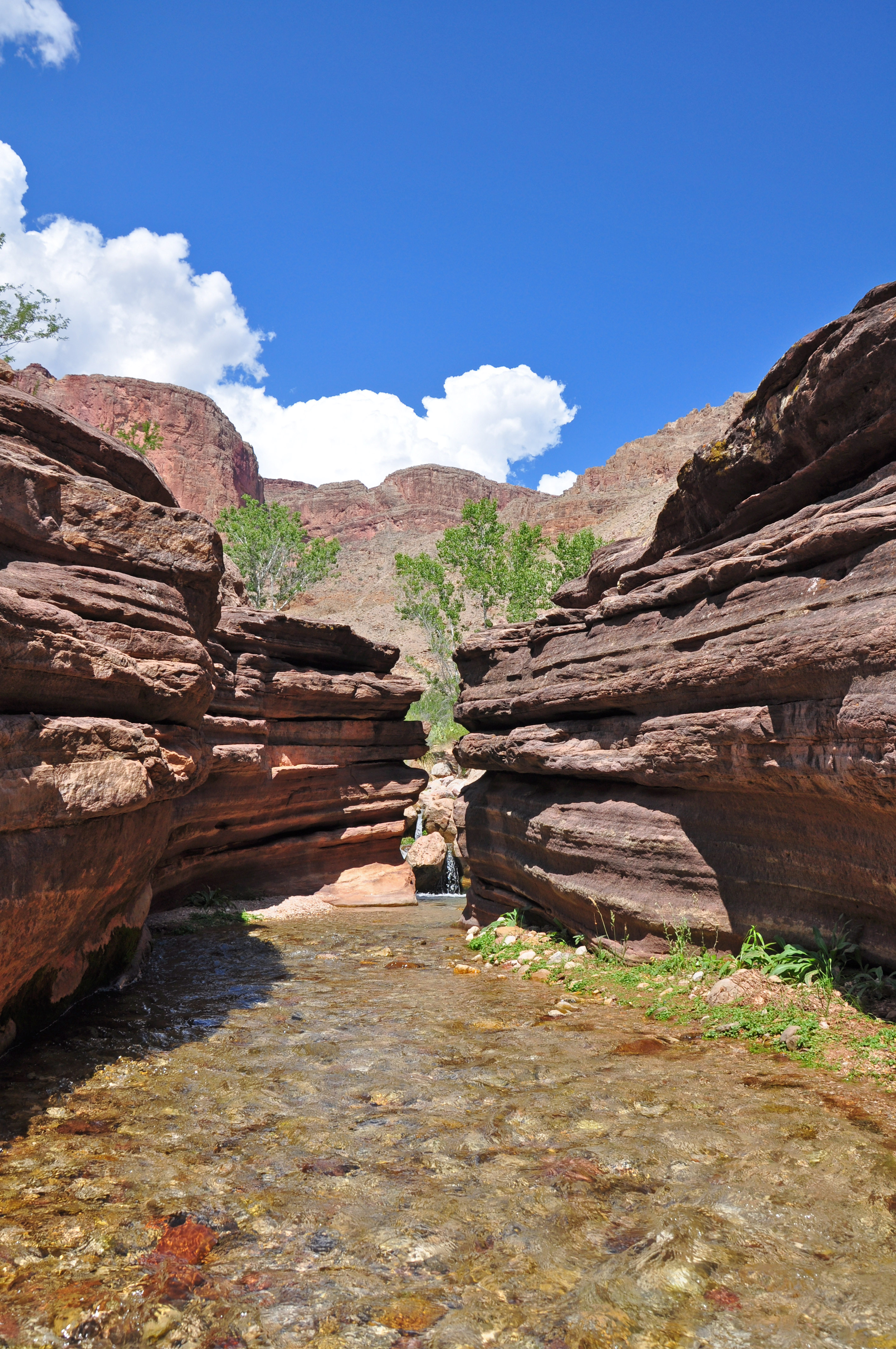 The outpourings of water from Deer Spring have attracted people since prehistoric times and today this little corner of Grand Canyon is exceedingly popular among seekers of the remarkable. Like a gift, booming streams of crystalline water emerge from mysterious caves to transform the harsh desert of the inner canyon into beautiful green oasis replete with the music of falling water and cool pools. Deer Creek is a stop on most Colorado River Trips through the Grand Canyon. Hiking in is a different story. Trailhead access can be difficult, sometimes impossible, and the approach march is long, hot and dry, but for those making the journey the destination represent something close to canyon perfection. NPS Photo by Erin Whittaker Download the Thunder River and Deer Creek Trail description: For Information about Colorado River Trip Opportunities in Grand Canyon National Park